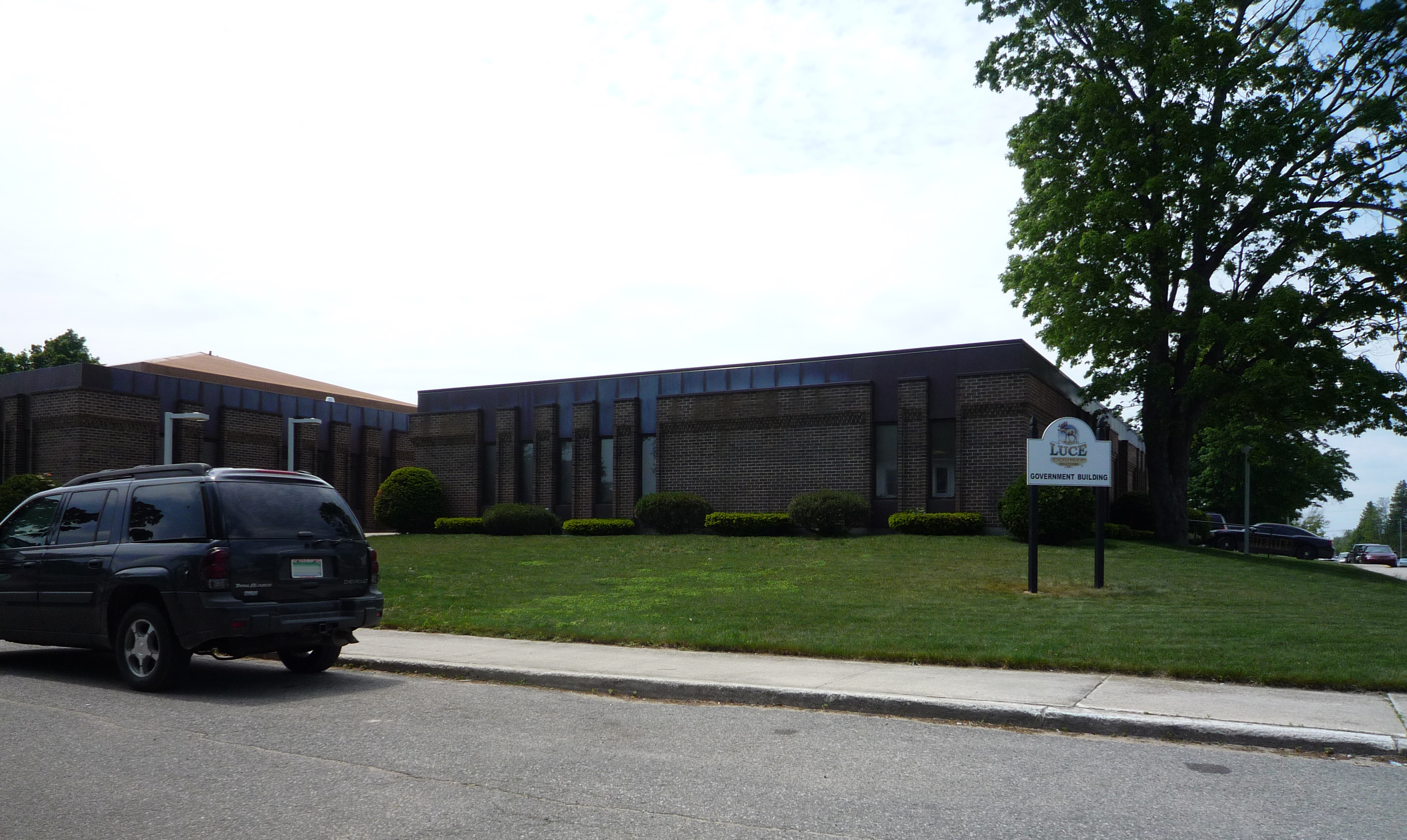 Luce County Government Building, Newberry, Michigan, USA.